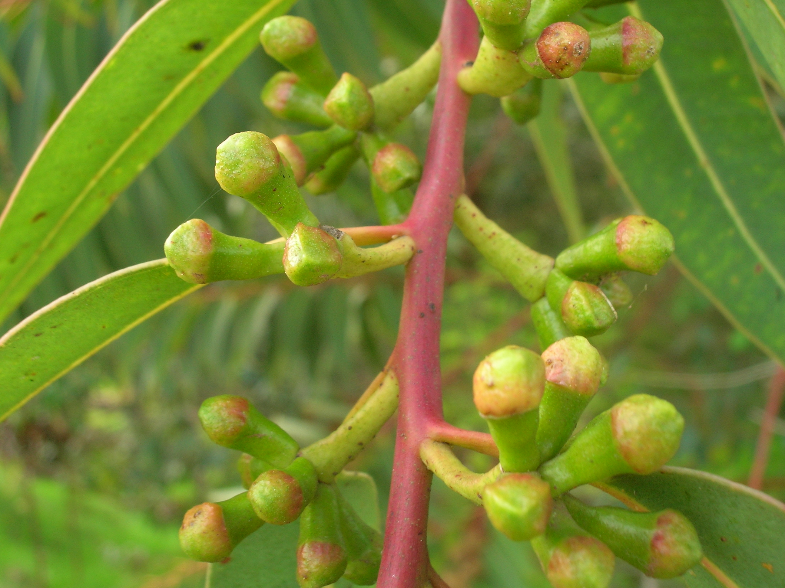 Eucalyptus botryoides (straplike peduncles). Location: Maui, Haleakala Ranch